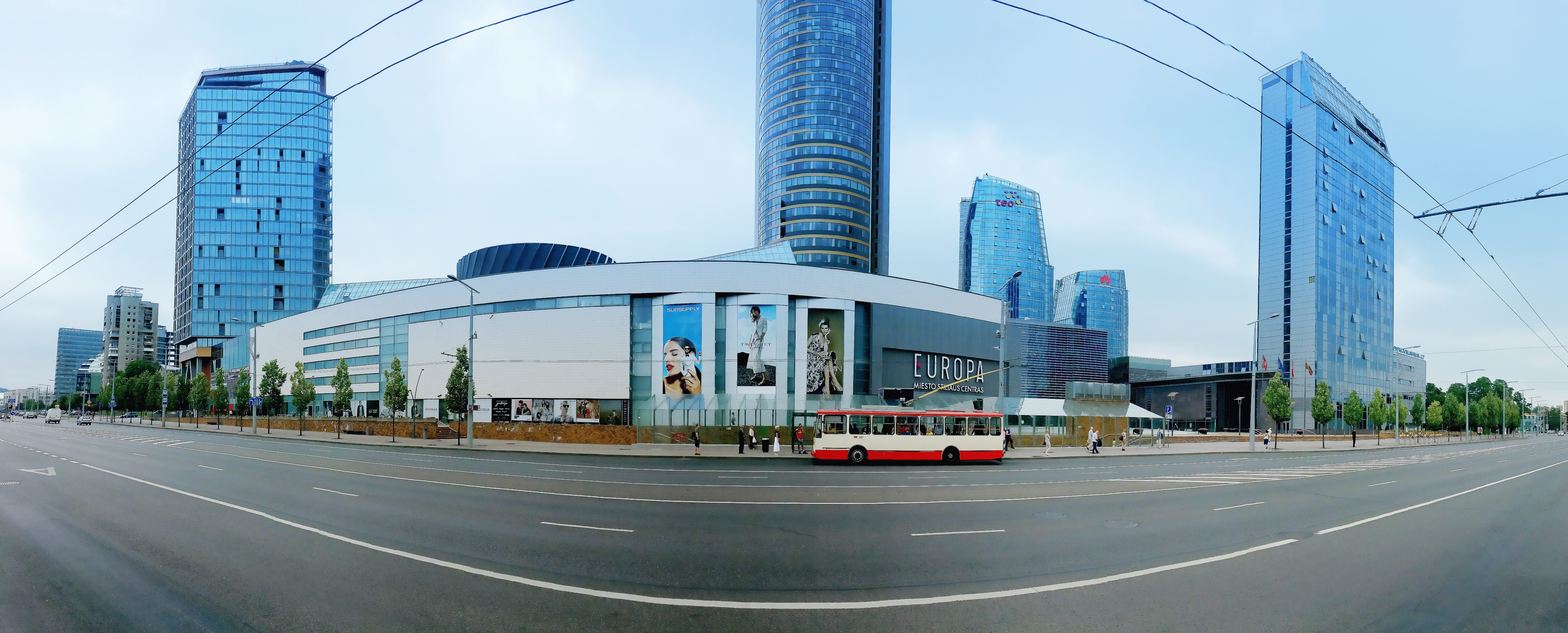 Konstitucijos prospektas, Šnipiškės in Vilnius (2016)